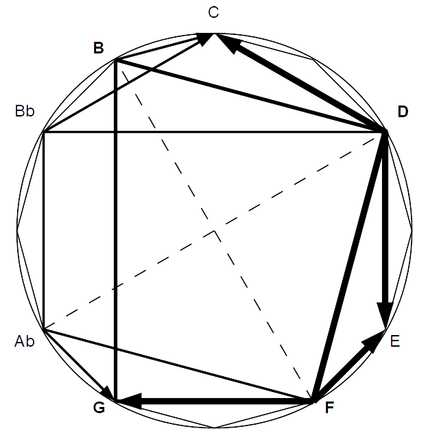 Backdoor compared with the dominant in the chromatic circle. Note they share two tones and are transpositionally equivalent (by a m3). Resolutions, to a C major chord, marked with arrows.